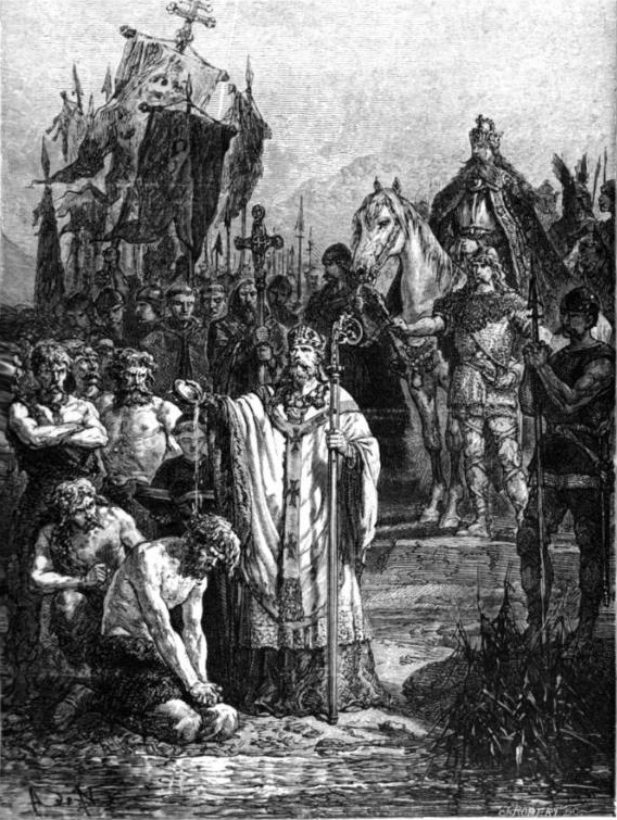 Charlemagne inflicting Baptism upon the Saxons